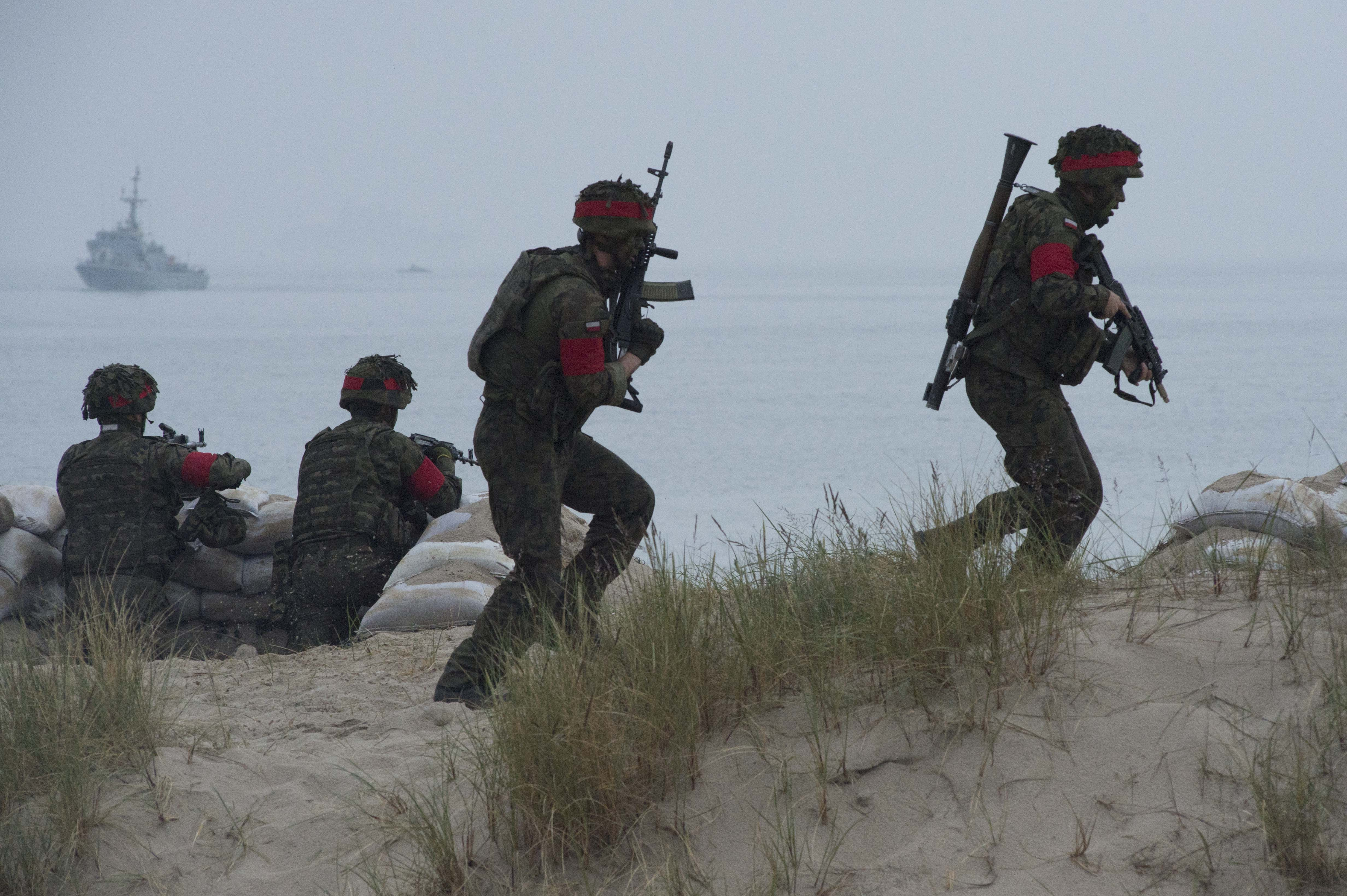 160616-N-KP948-052 USTKA, Poland (June 16, 2016) - Polish Marines from the 7th Coastal Defense Brigade participate in an amphibious landing exercise in Ustka, Poland, during BALTOPS 2016, June 16. BALTOPS is an annual recurring multinational exercise designed to improve interoperability, enhance flexibility and demonstrate the resolve of allied and partner nations to defend the Baltic region. (U.S. Navy Photo by Mass Communication Specialist Seaman Alyssa Weeks/Released)